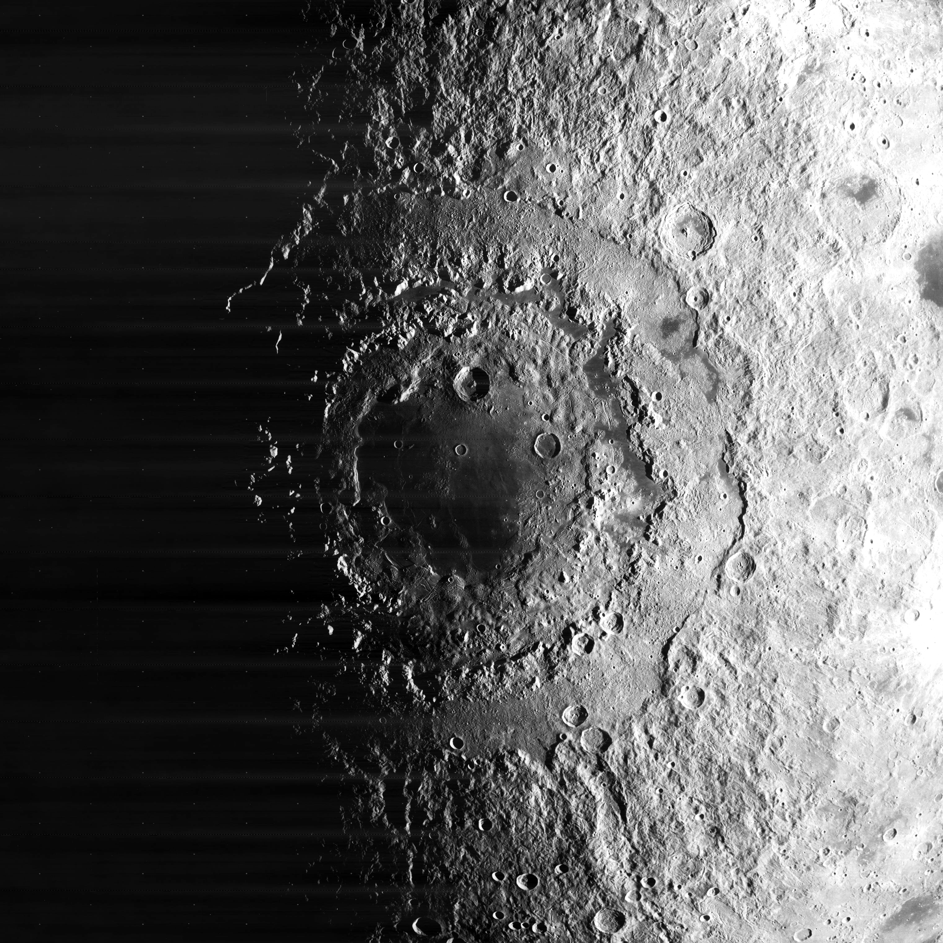 Basin of Mare Orientale on the Moon. Imaged by Lunar Orbiter 4 (1967) from altitude 2773 km.